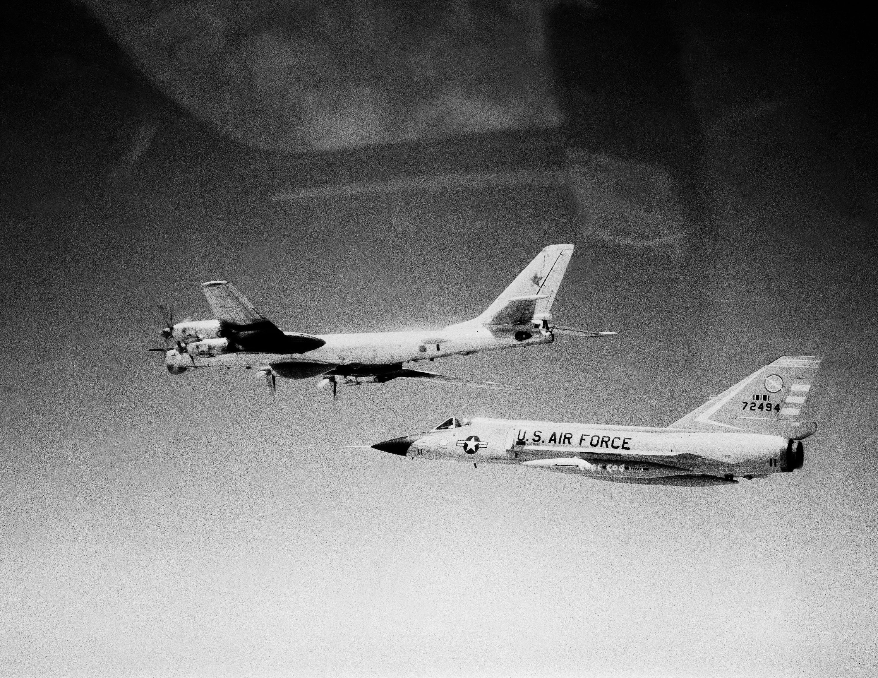 An U.S. Air Force Convair F-106A Delta Dart (s/n 57-2494) of the 102nd Fighter Interceptor Wing of the Massachusetts Air National Guard based at Otis Air Force Base, Massachusetts (USA), intercepting a Soviet Tu-95 Bear D bomber aircraft off Cape Cod on 15 April 1982. The F-106A 57-2494 (c/n 8-24-77) was retired to the AMARC as FN0163 on 29 December 1987. It was converted to an unmanned QF-106A drone and shot down with a FIM-92 Stinger hand-held surface-to-air missile on 27 August 1996.